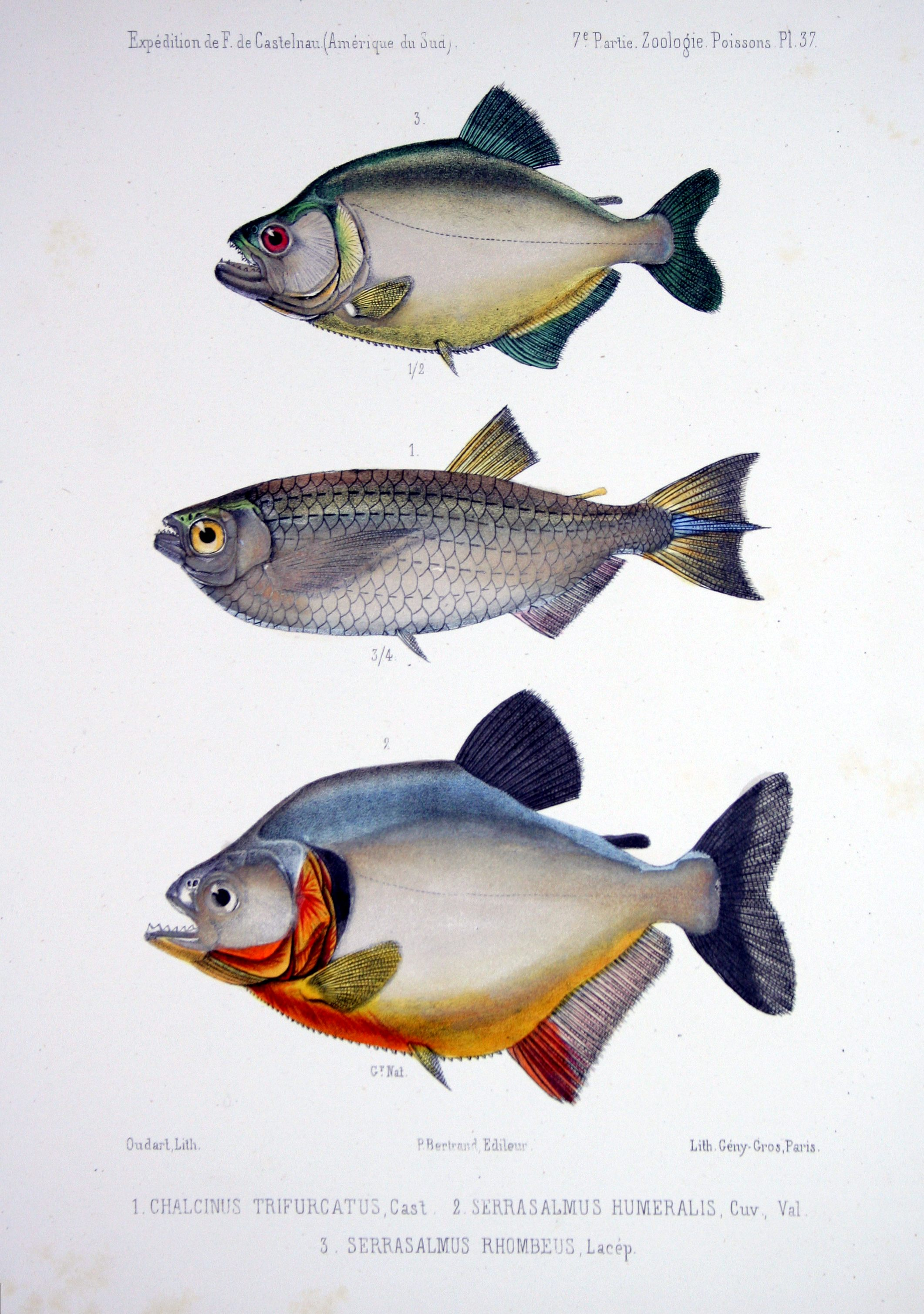 From top to bottom: Serrasalmus rhombeus Chalcinus trifurcatus = Triportheus trifurcatus Serrasalmus humeralis